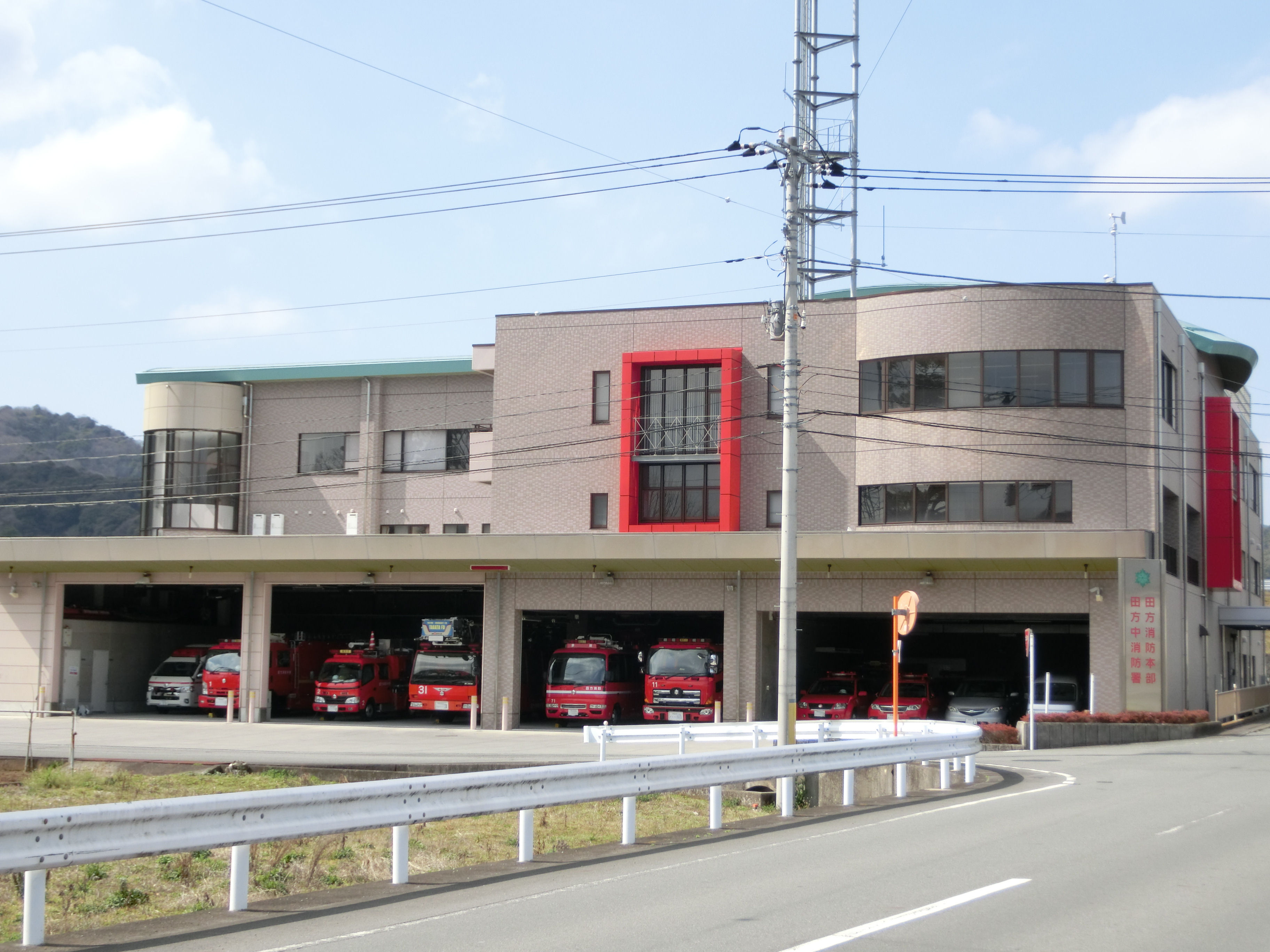 Tagata Fire Department